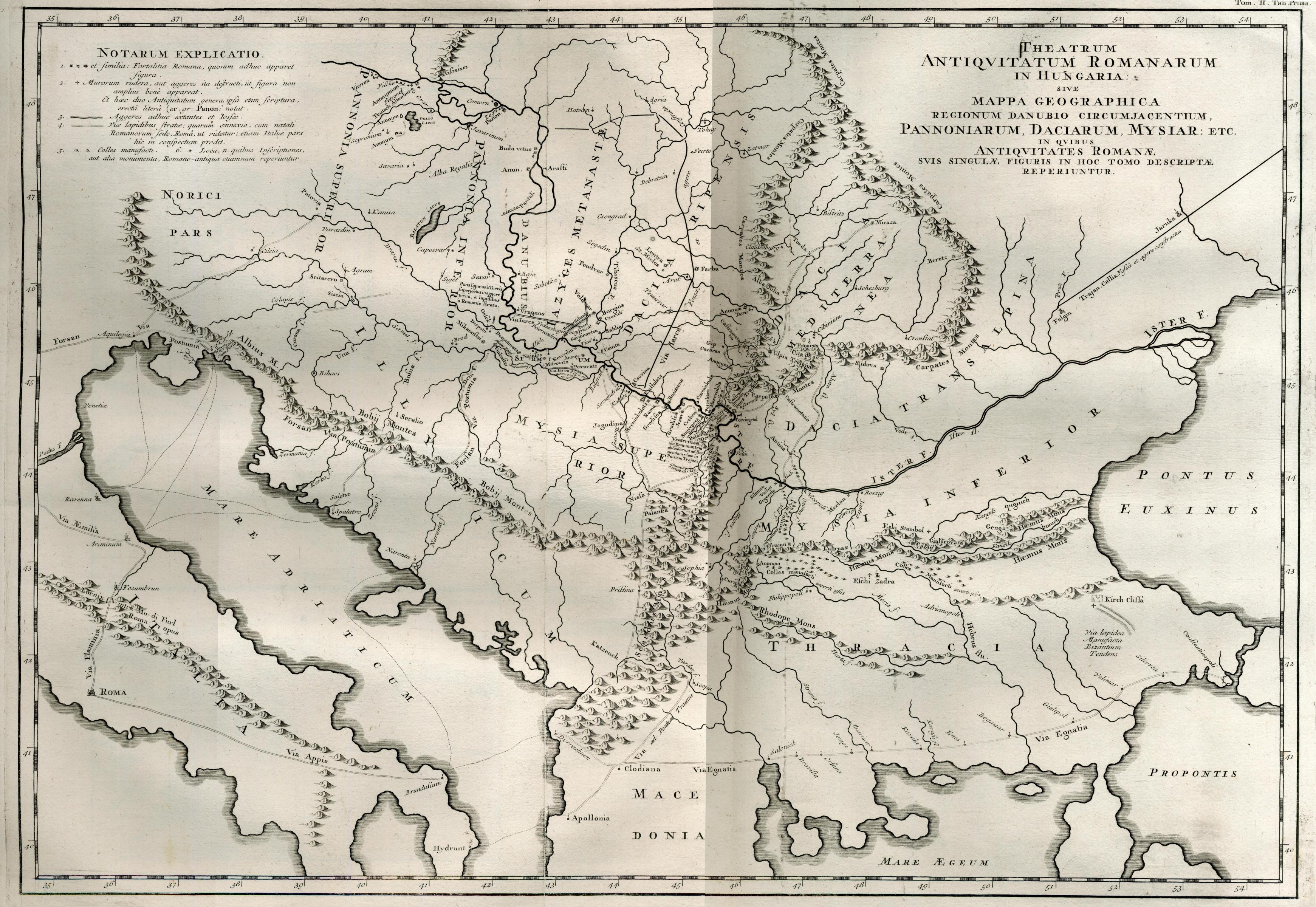 Luigi Ferdinando Marsigli: Theatrum Antiqvitatum Romanarum in Hungaria: sive Mappa Geographica Regionum Danubio Circumjacentium, Pannoniarum, Daciarum, Mysiar: Etc. in Qvibus Antiqvitates Romanae Svis Singulae Figuris in Hoc Tomo Descriptae Reperiuntur in Theatrum Antiqvitatum Romanarum in Hungaria in Danubius Pannonico-mysicus : observationibus geographicis, astronomicis, hydrographicis, historicis, physicis, perlustratus et in sex tomos digestus